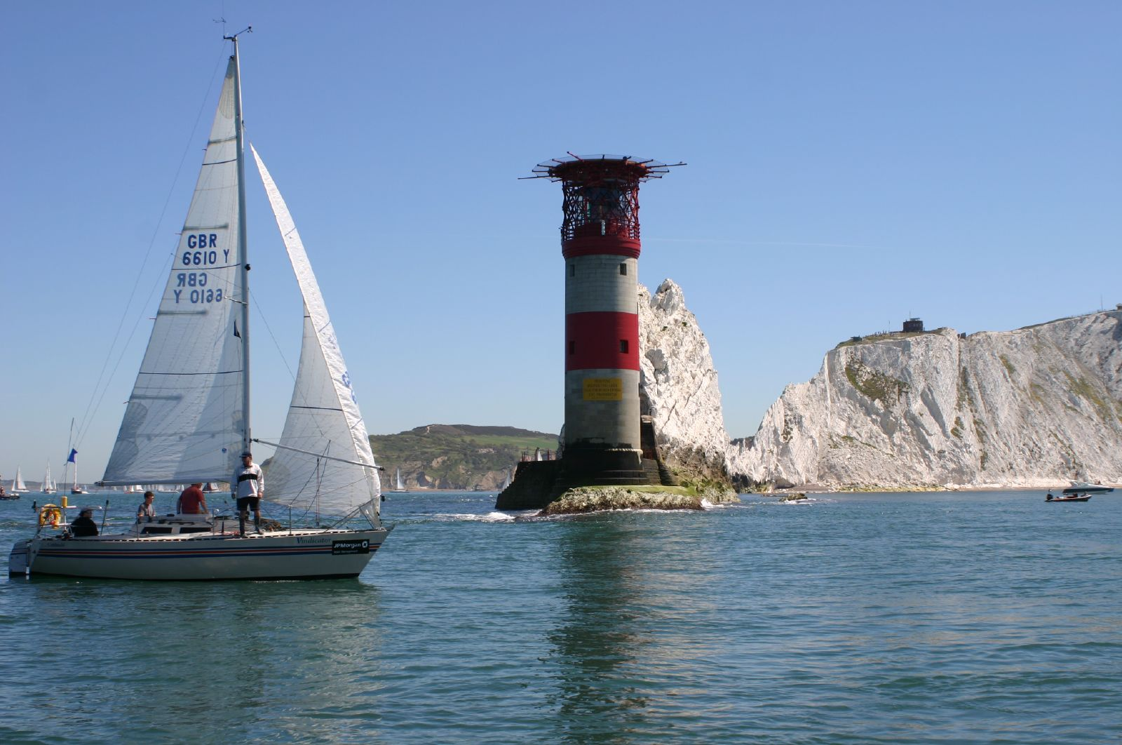 A Yacht participating in the "Round the Island Race" in 2006, passing The Needles off the west coast of the Isle of Wight.